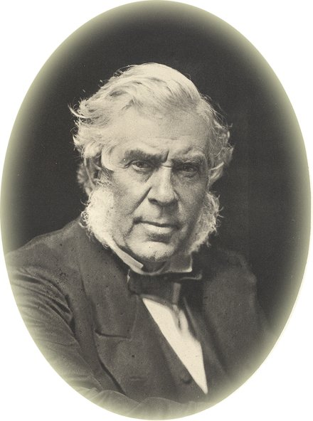 Daniel Macnee (1806–1882) Description Scottish portrait painter Date of birth/death4 June 180617 January 1882Location of birth/deathFintry, StirlingshireEdinburghAuthority control VIAF: 95715394